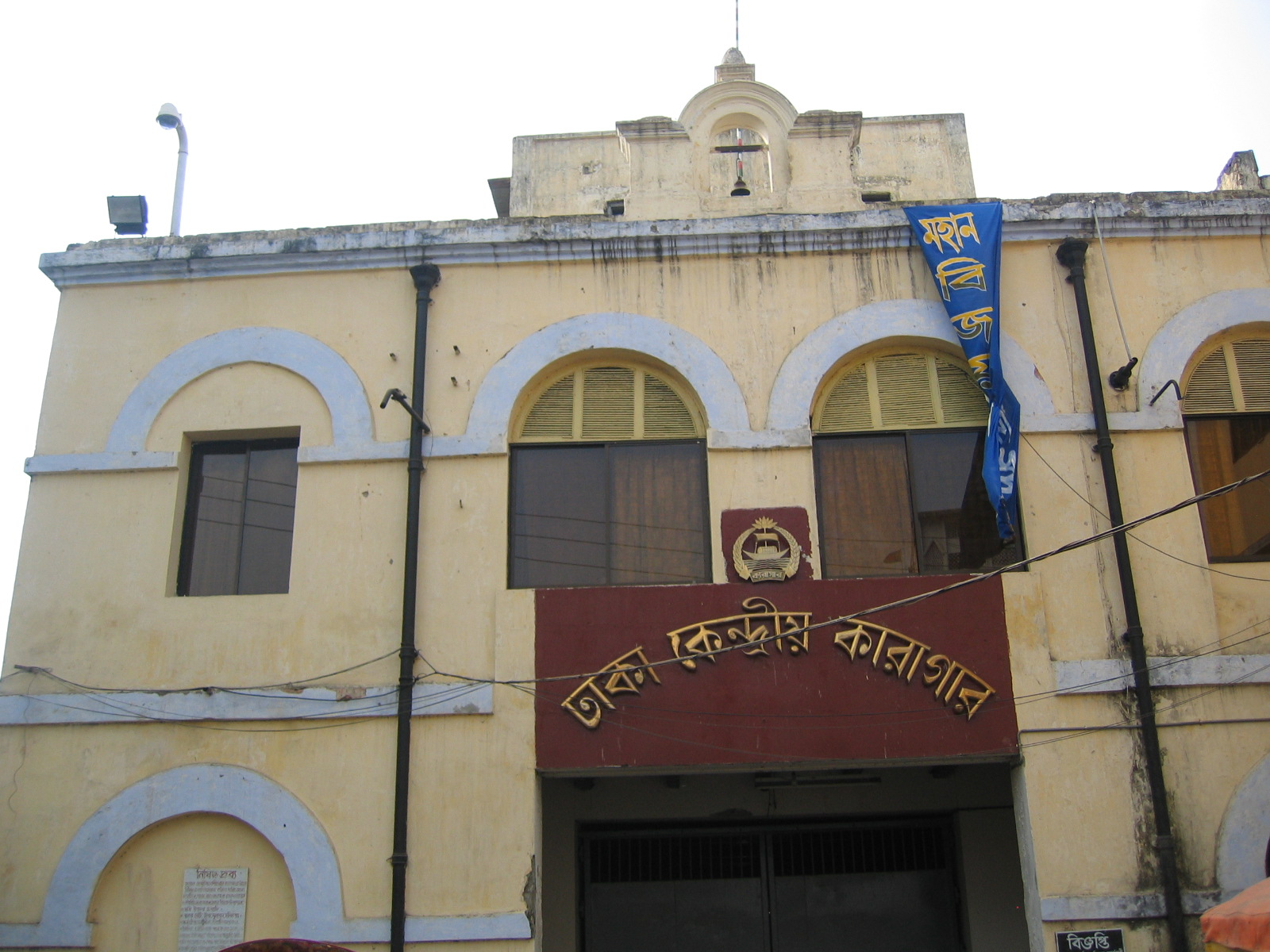 Main gate of Dhaka Central Jail.